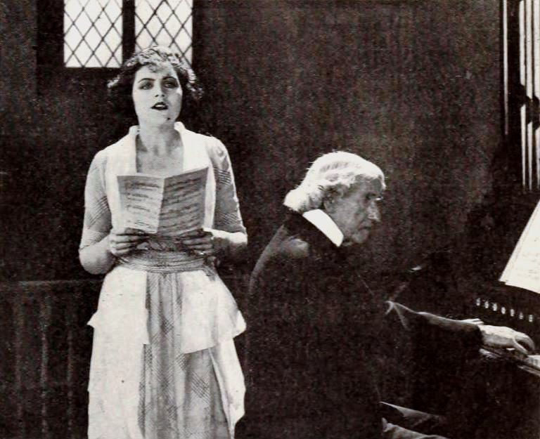 Still from the American drama film Greater Than Fame (1920) with Elaine Hammerstein, on page 49 of the January 3, 1920 Exhibitors Herald. The organist is likely James A. Furey (1845 – 1922).